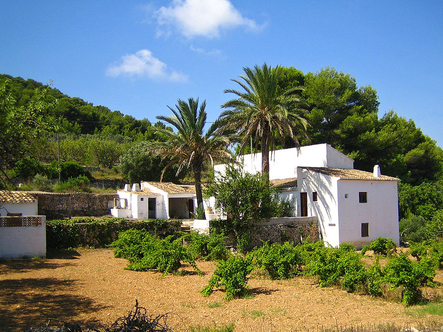 Farmhouse in Xàbia, Marina Alta, Region of Valencia, Spain